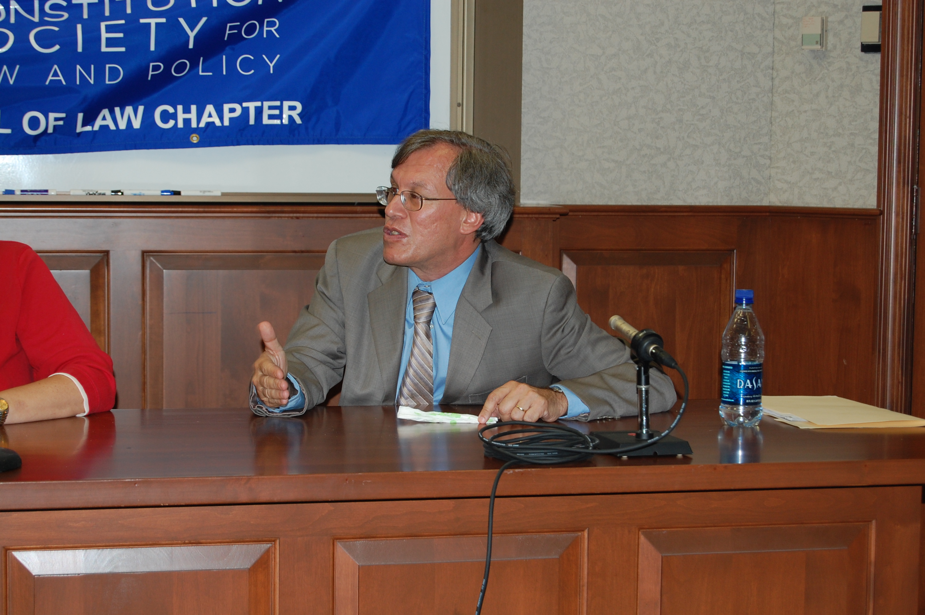 Erwin Chemerinsky speaks to the local American Constitution Society during the 20th annual Supreme Court Preview, sponsored by the Institute of Bill of Rights Law and held Sept. 14-15, 2007 at the William & Mary School of Law in Williamsburg, Va.